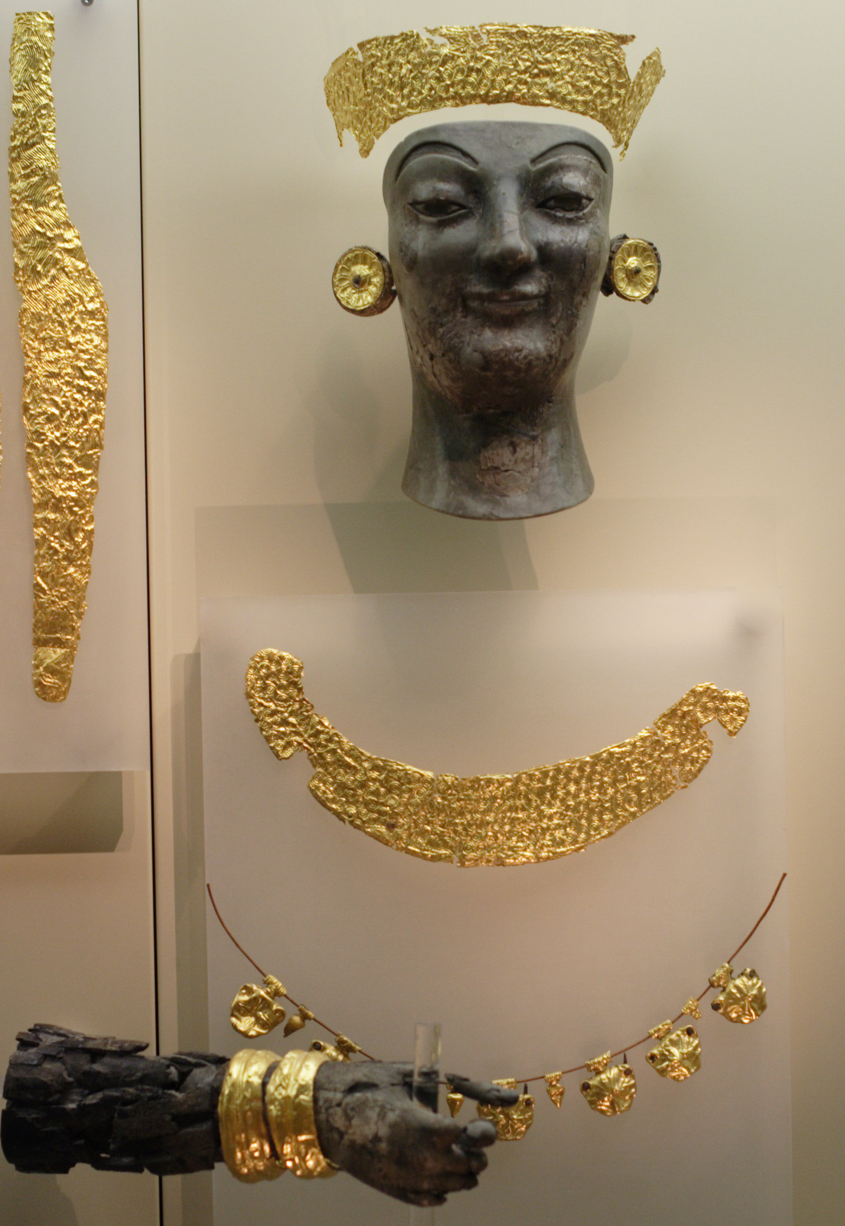 Artemis, Torso of cult statue. Ivory and gold. Finding in Delphi, probably Ionian work, around 550 BC. Archaeological Museum of Delphi.